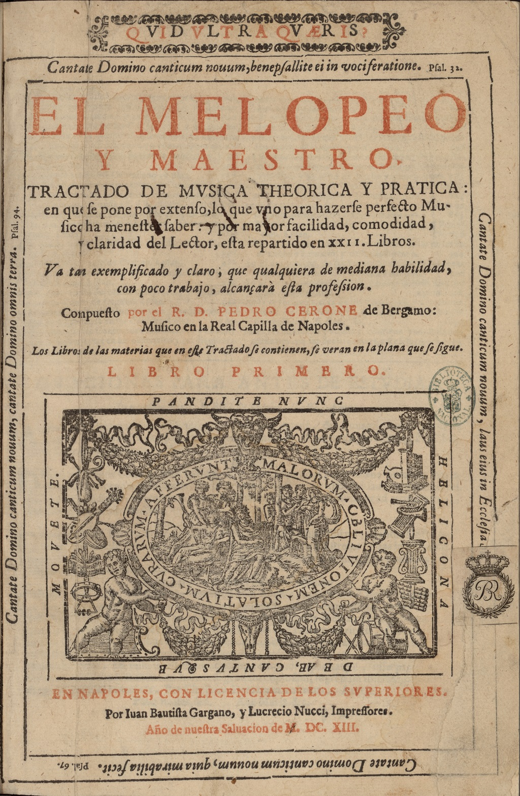 Title page of El melopeo y maestro: tractado de musica theorica y pratica (Treatise on the Theory and Practice of Music)